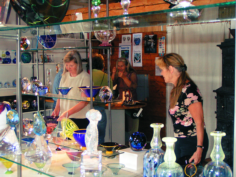 The glassshop Erikshyttan in the town Eriksmåla in The Kingdom of Crystal, Småland, Sweden